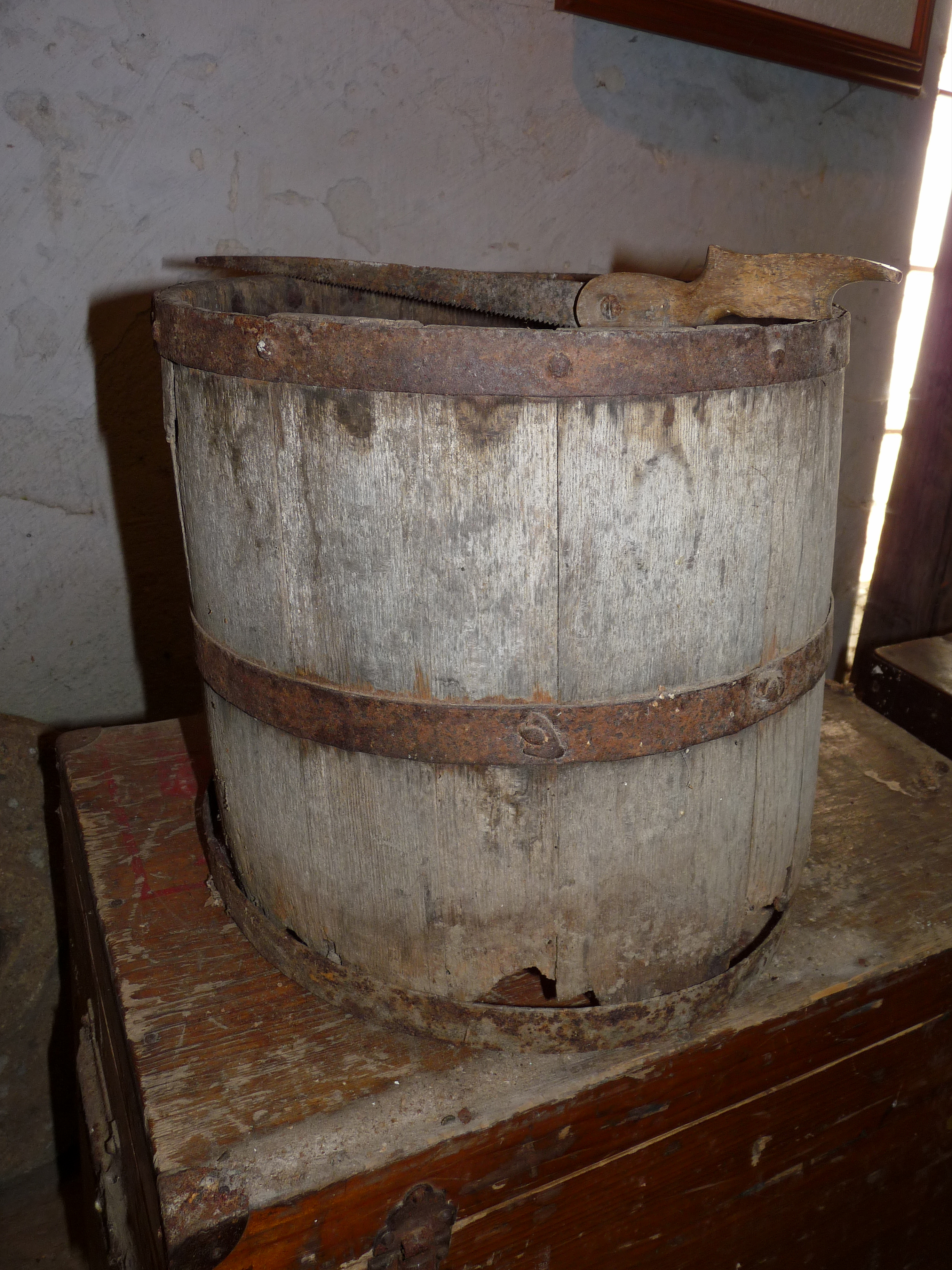 Rosenauerův mlýn (Rosenauer mill) in Velké Hydčice near Horažďovice, Klatovy District, Czech Republic.